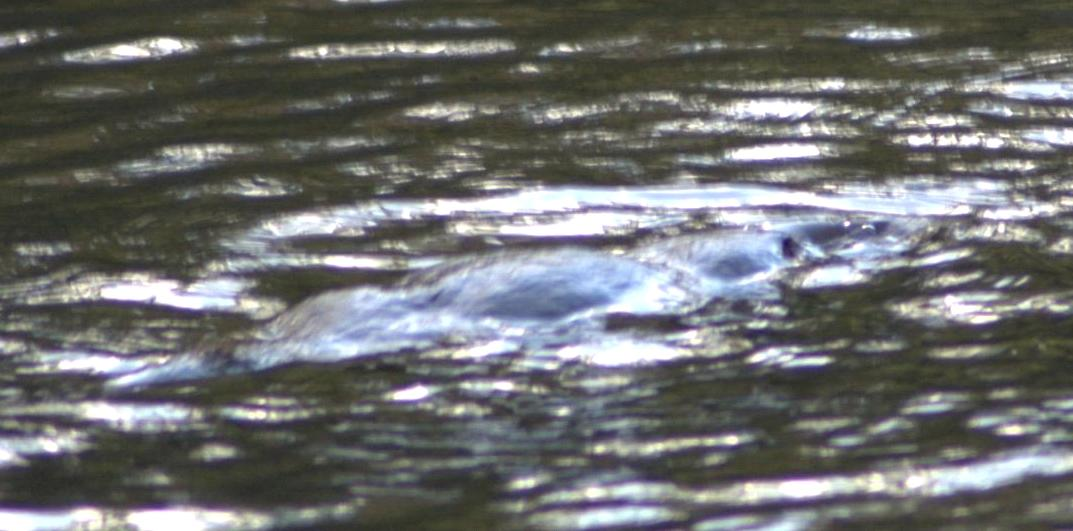 Platypus is very hard to spot in the wild even where supposedly abundant. This is the only picture we were able to make in an hour of watching the river in Tasmania. December 2005. пан Бостон-Київський 21:00, 27 January 2006 (UTC)